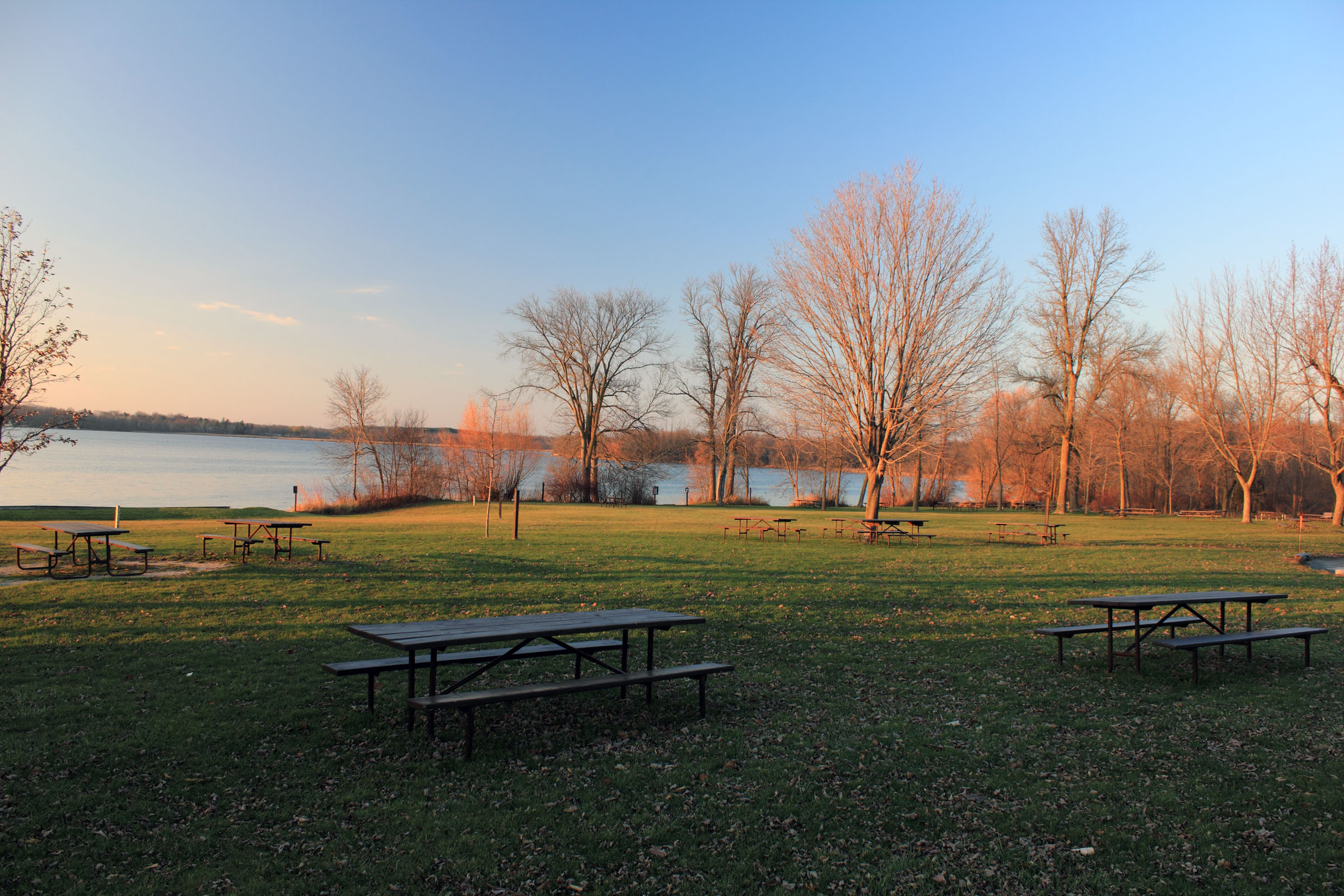 Pike Lake State park, Lake and picnic Area